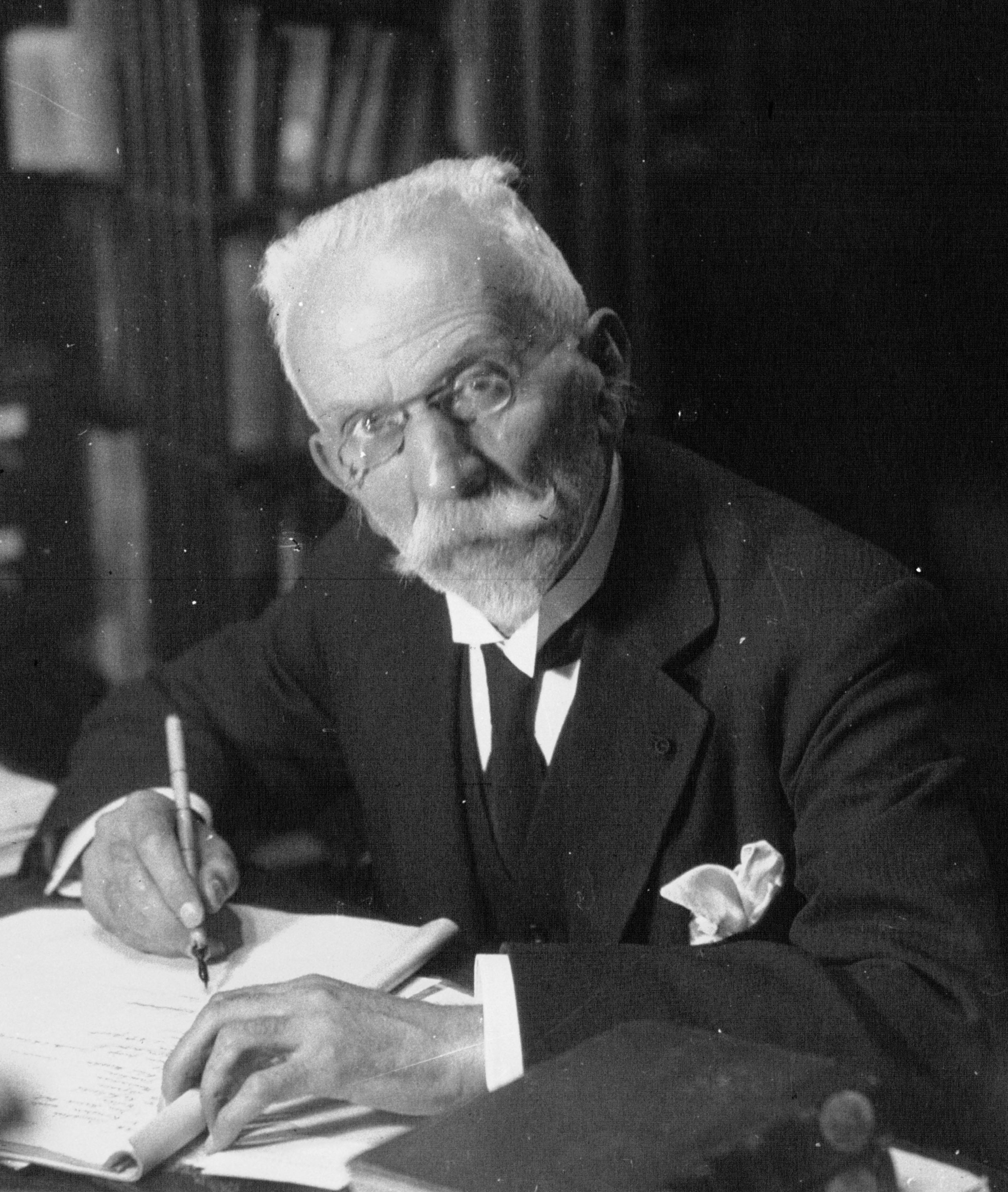 French linguist Paul Boyer (1864-1949), director of the Institut national des langues et civilisations orientales (1908-1936).